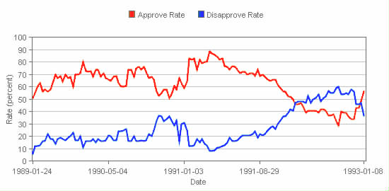 Bush approval ratings. Gallup job performance rating. Source: Roper Center.